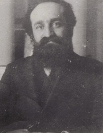 Photograph of the Romanian socialist leader Ilie Moscovici.